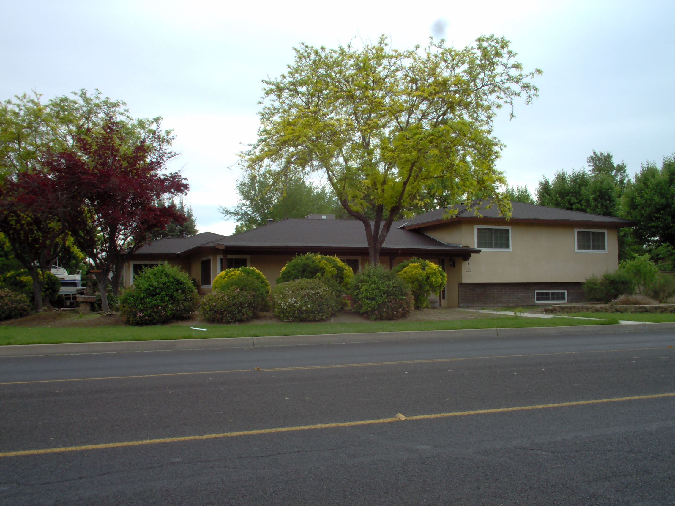 Early 1970's Raised Ranch in California. Section on right has half basement/second story. The style gives the normally single story Ranch House a second floor while attempting to keep the traditional horizontal lines of the style. Windows and roof materials are not original to the house.